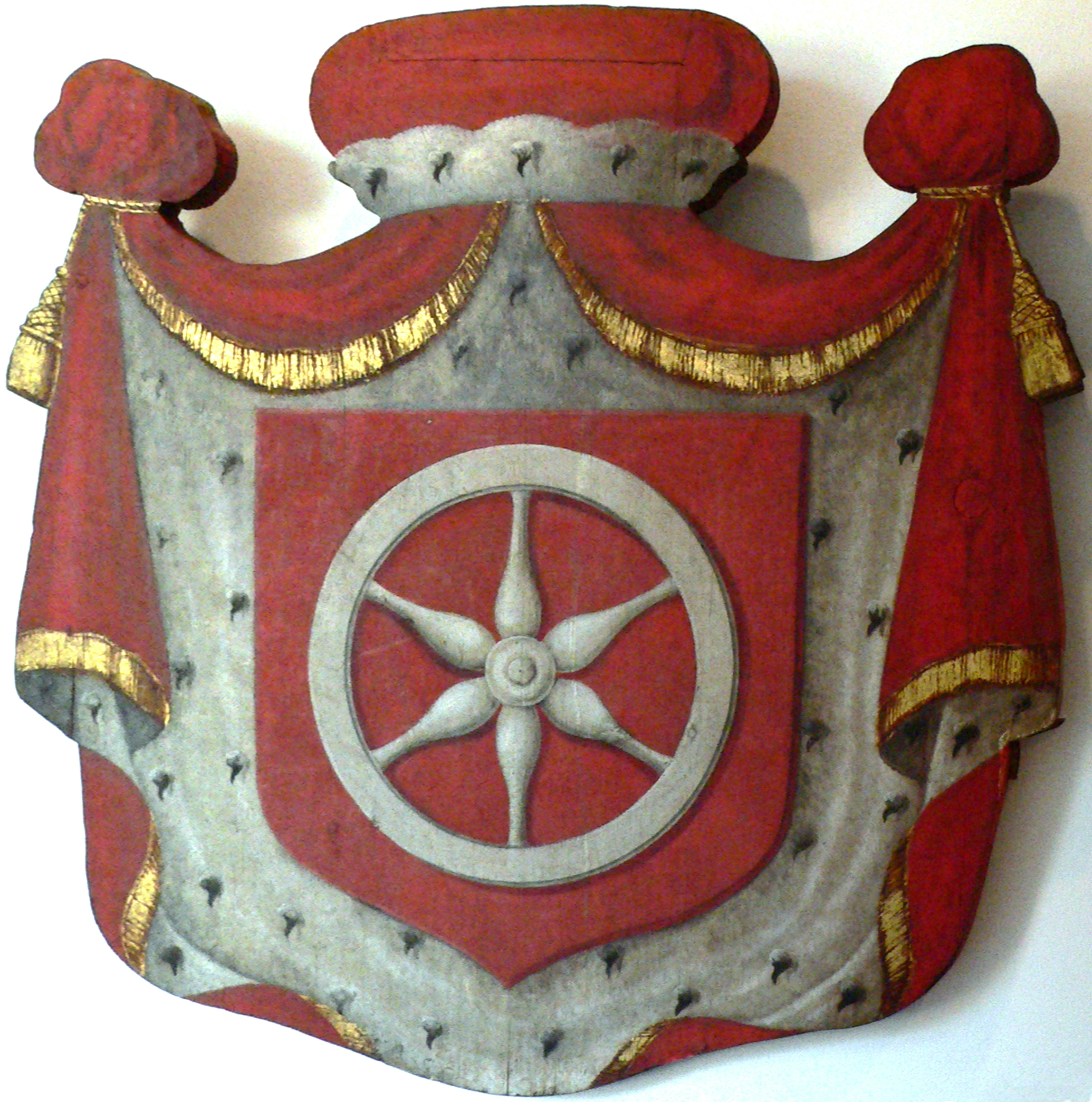 Coat of arms of the Archbishopric of Mainzprince-elector and arch-bishop of Mainz. Mid 18th century. Oil paint on wood. Blazon: An argent (white) wheel with six spokes on gules (red) backdrop.